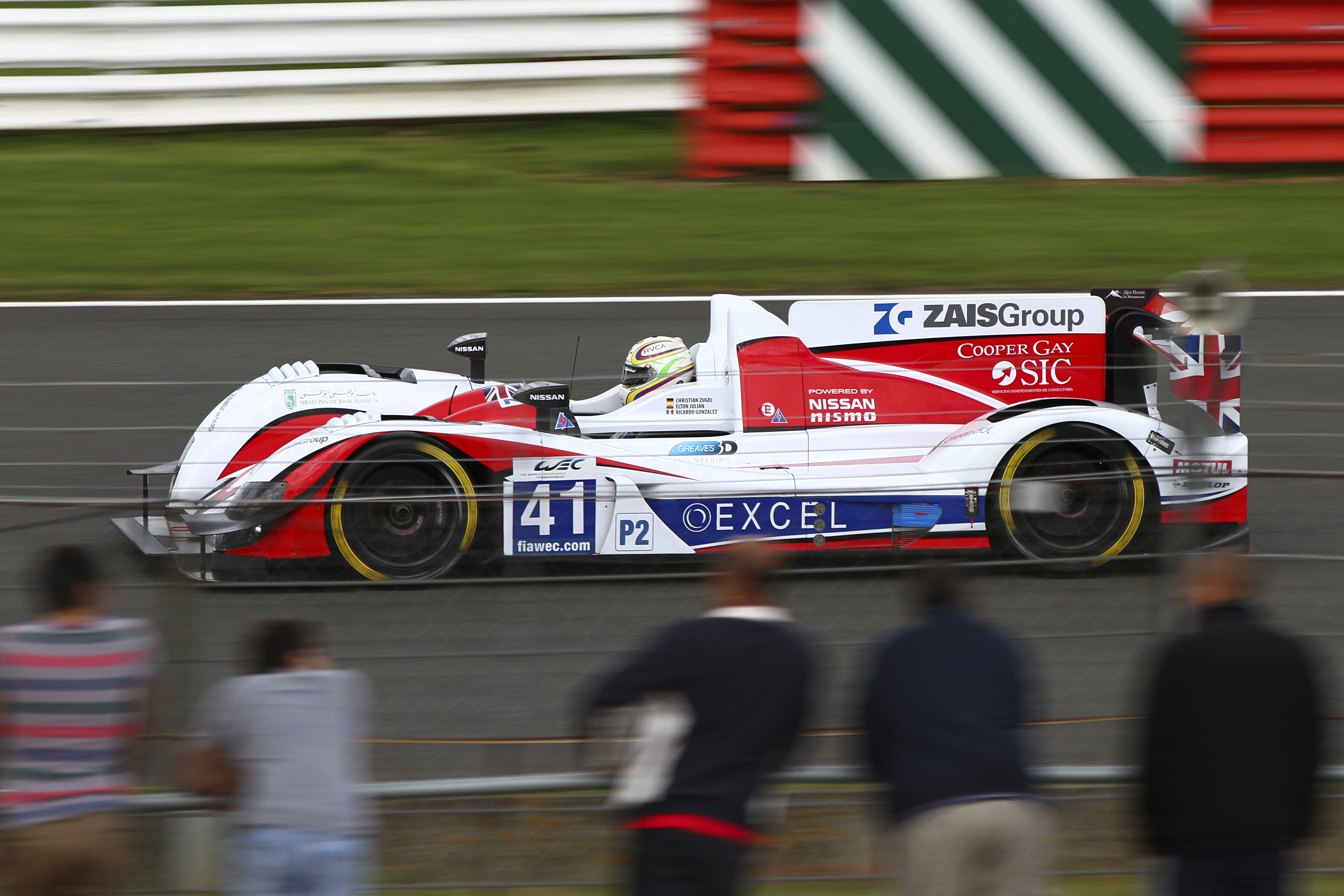 Elton Julian in the Greaves Motorsport Zytek Z11SN-Nissan at the 2012 6 Hours of Silverstone